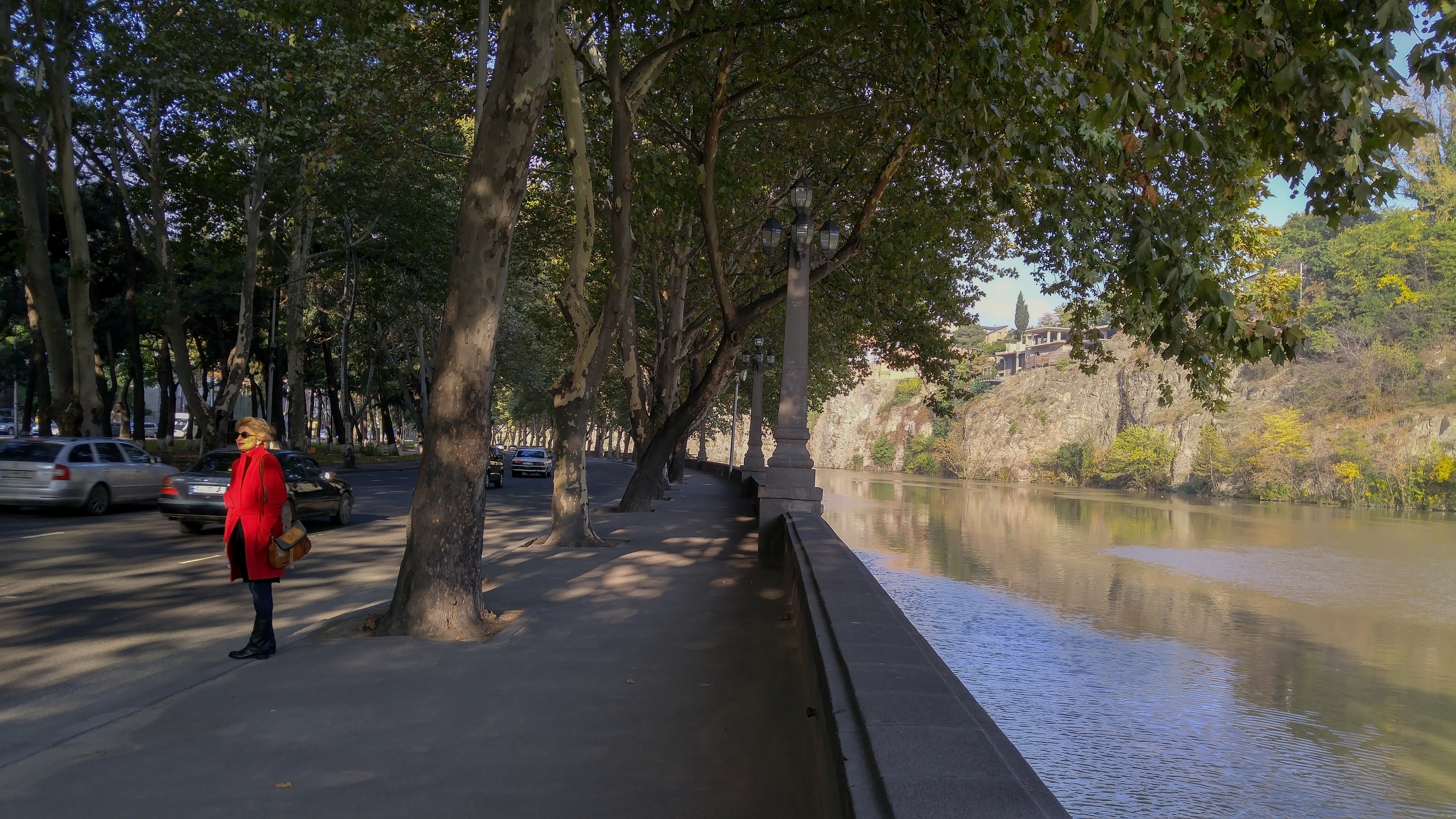 The Kura is an east-flowing river south of the Greater Caucasus Mountains which drains the southern slopes of the Greater Caucasus east into the Caspian Sea.